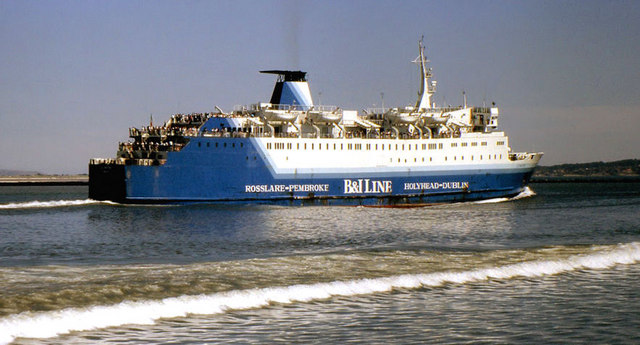 The "Leinster" departing Dublin The car ferry “Leinster” departing Dublin with the 11.45 sailing to Holyhead. Seen from the South Wall – an exposed spot on a windy day.